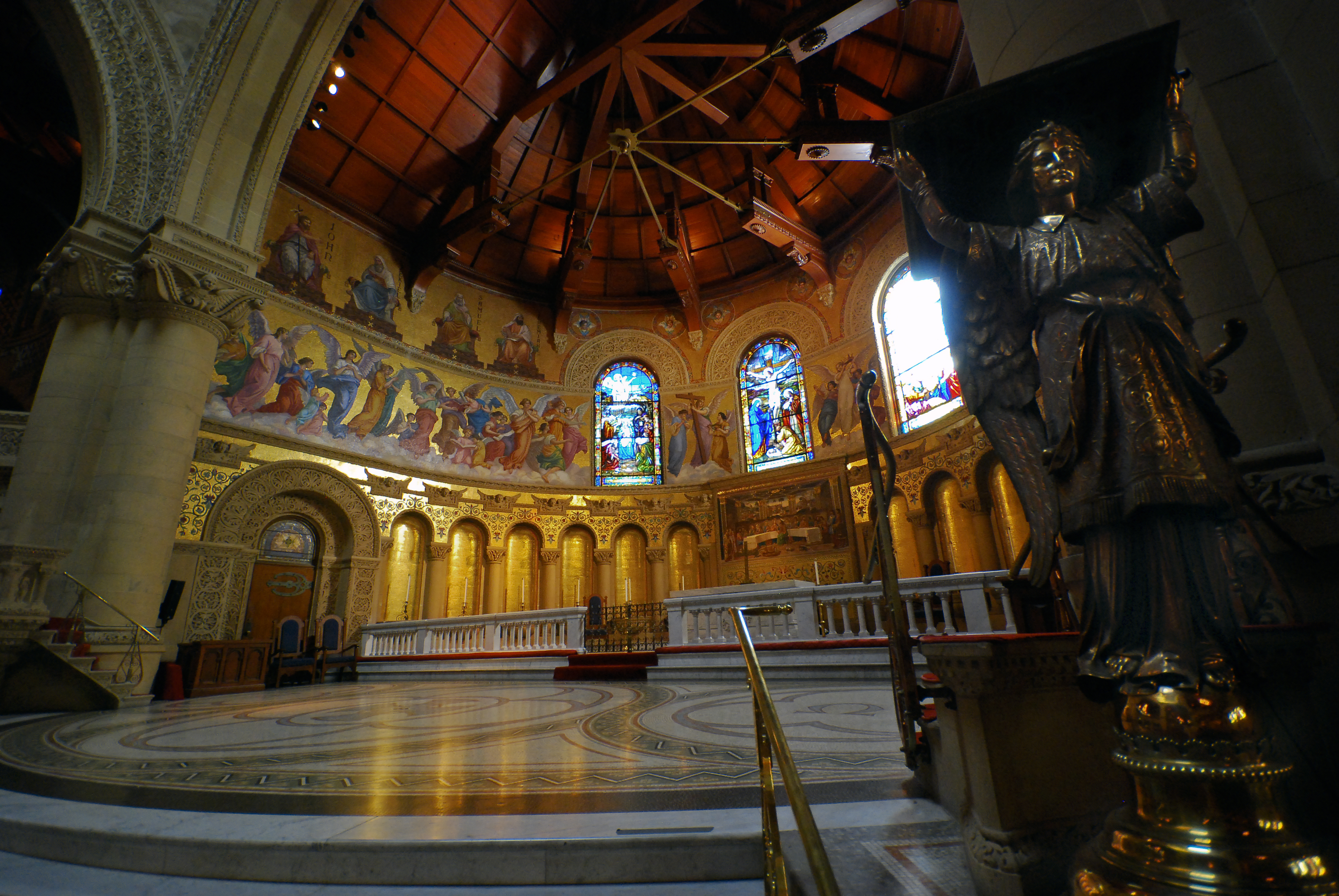 Wide view of the altar and pulpit in Stanford Memorial Church: the church and its contents were reconstructed in 1906 after an earthquake; hence, the architecture and works of art are in the public domain (PD-US).[1][2]